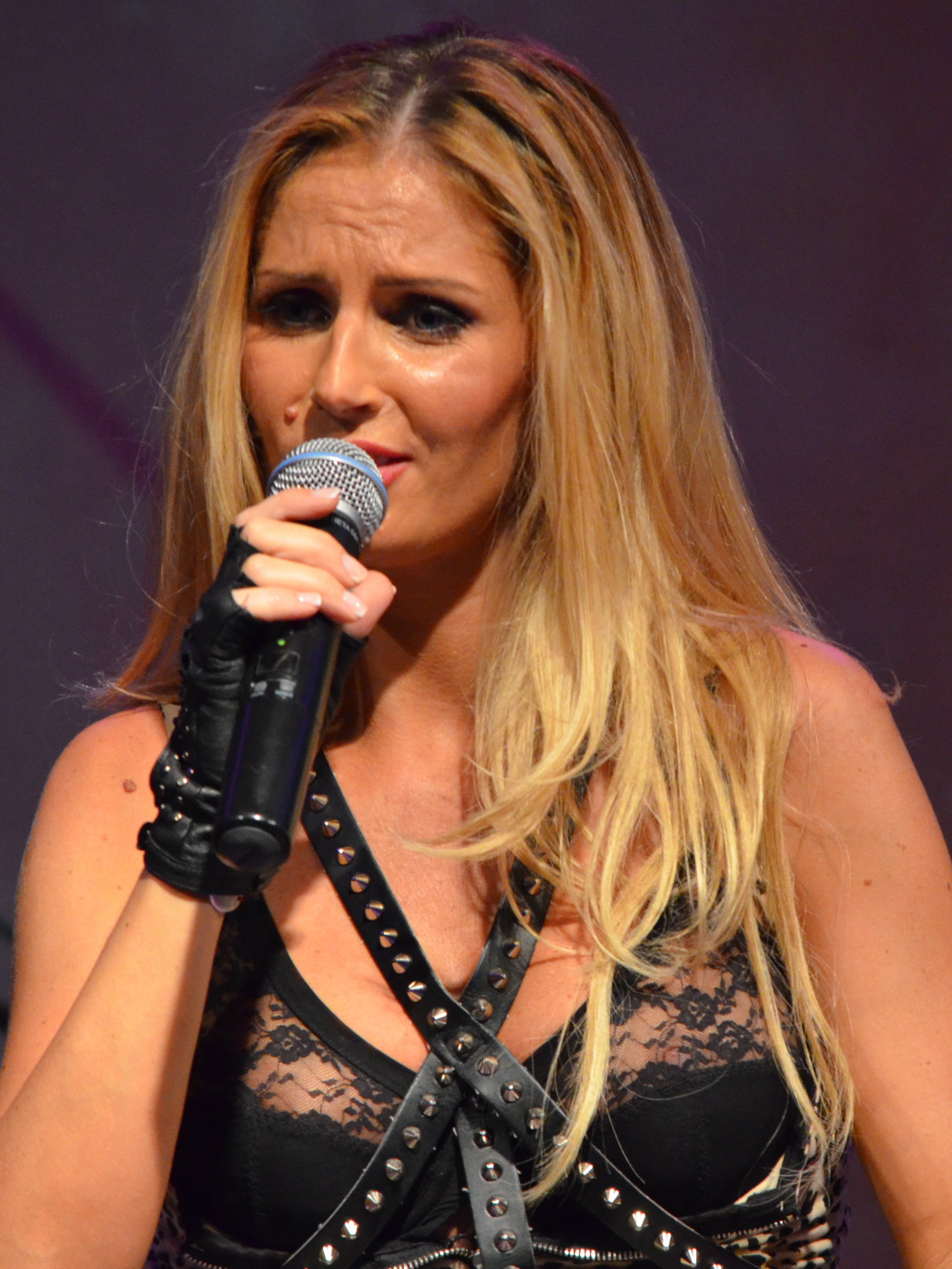 Andreea Bănică, at Happy Avon Day 2012, Titan Park, Bucharest